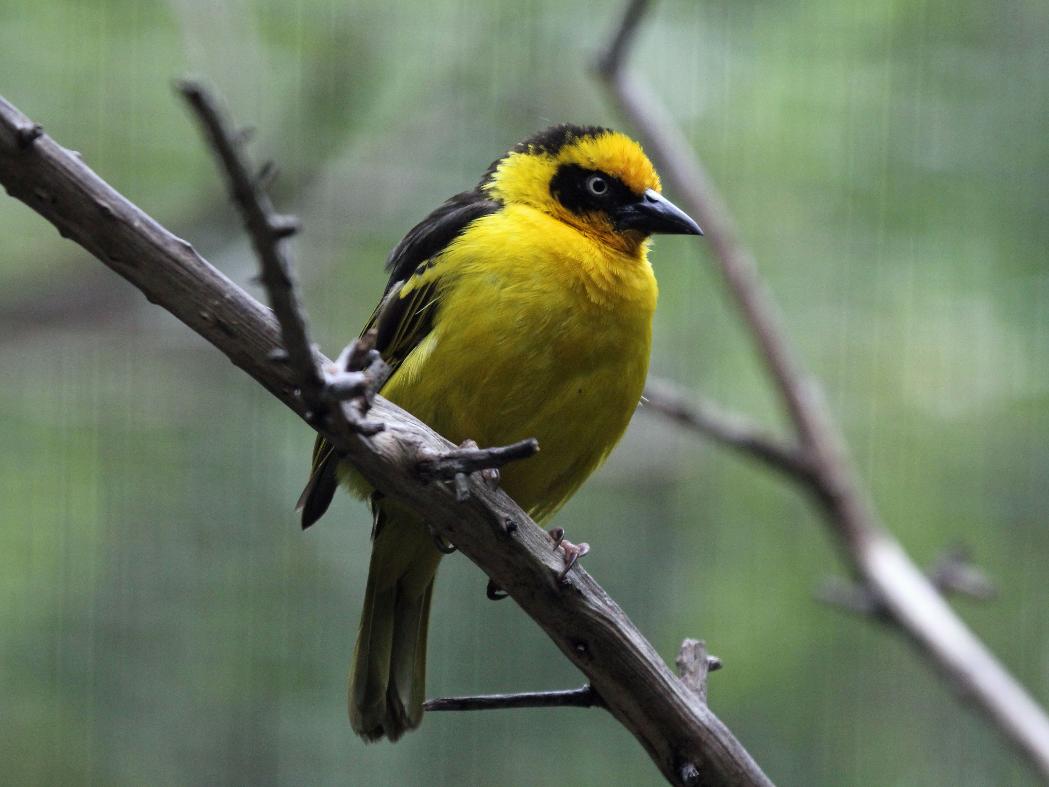 Baglafecht Weaver (Ploceus baglafecht), subspecies Ploceus b. reichenowii - Reichnow's Weaver. Photographed at San Diego Zoo.